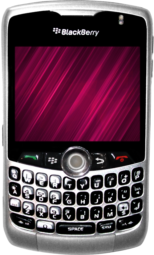 A photograph of the BlackBerry Curve